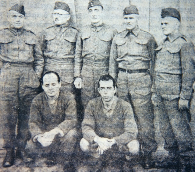 Greek generals at Dachau. Standing generals (from left): G. Kosmas,K. Bakopoulos, A. Papagos, I. Pitsikas, P. Dedes.